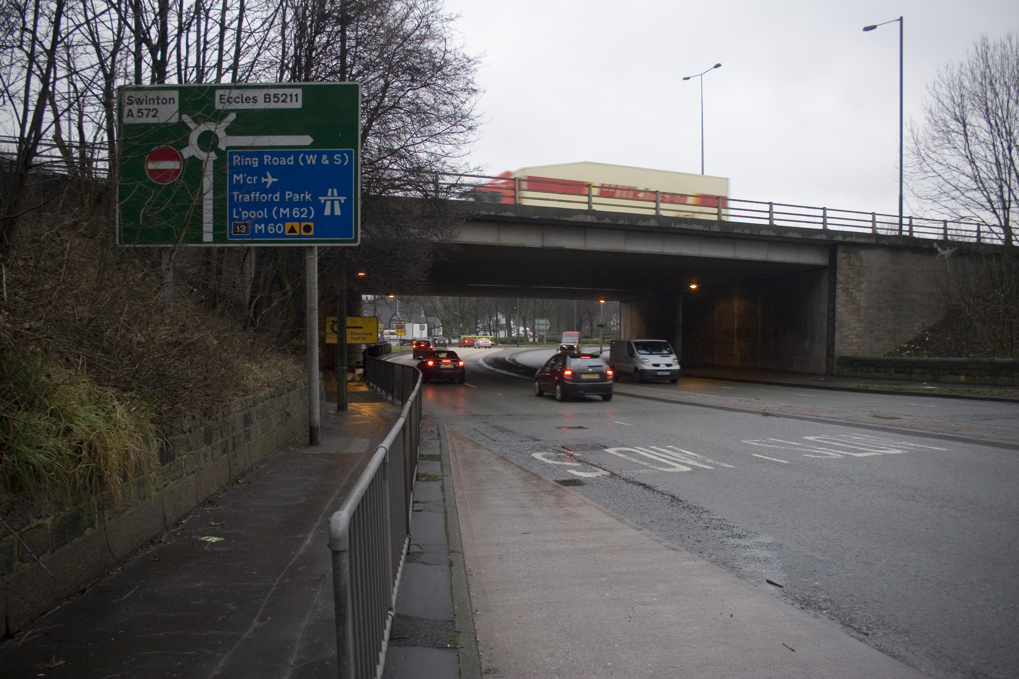 The M60 motorway running through Worsley. The Courthouse is visible just beyond the bridge.